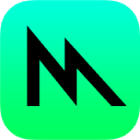 The logo of the Metal 2 framework